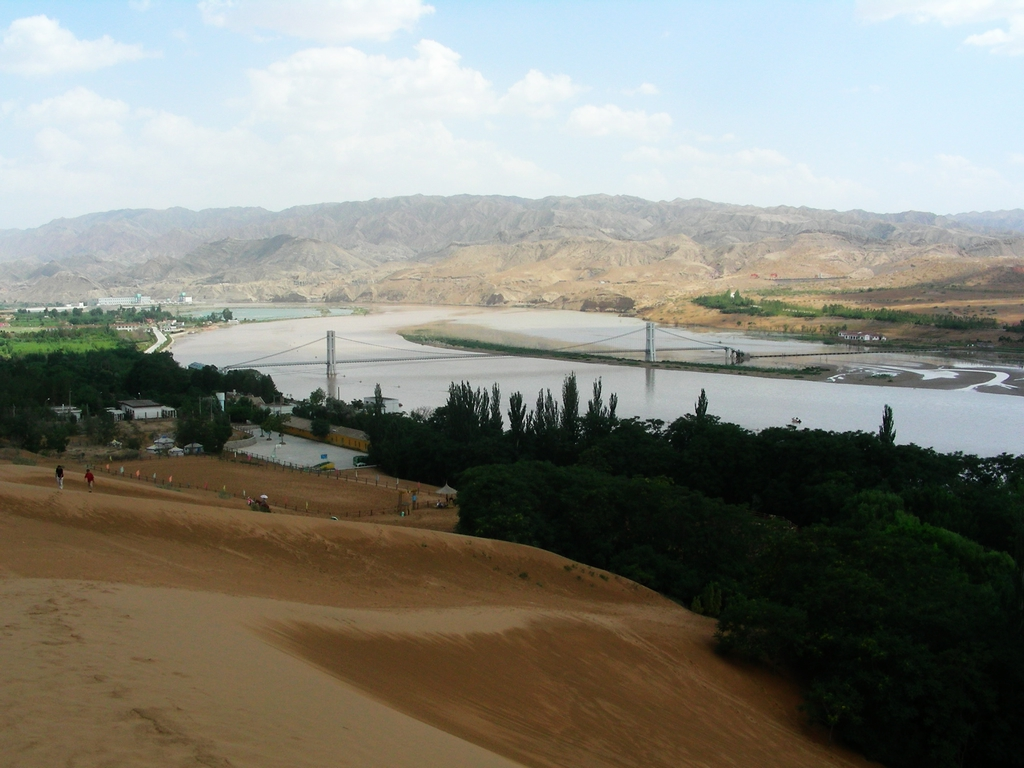 Title: Shapotou,Ningxia Taken on: 2006-7-31 Photographer: Fred Feng